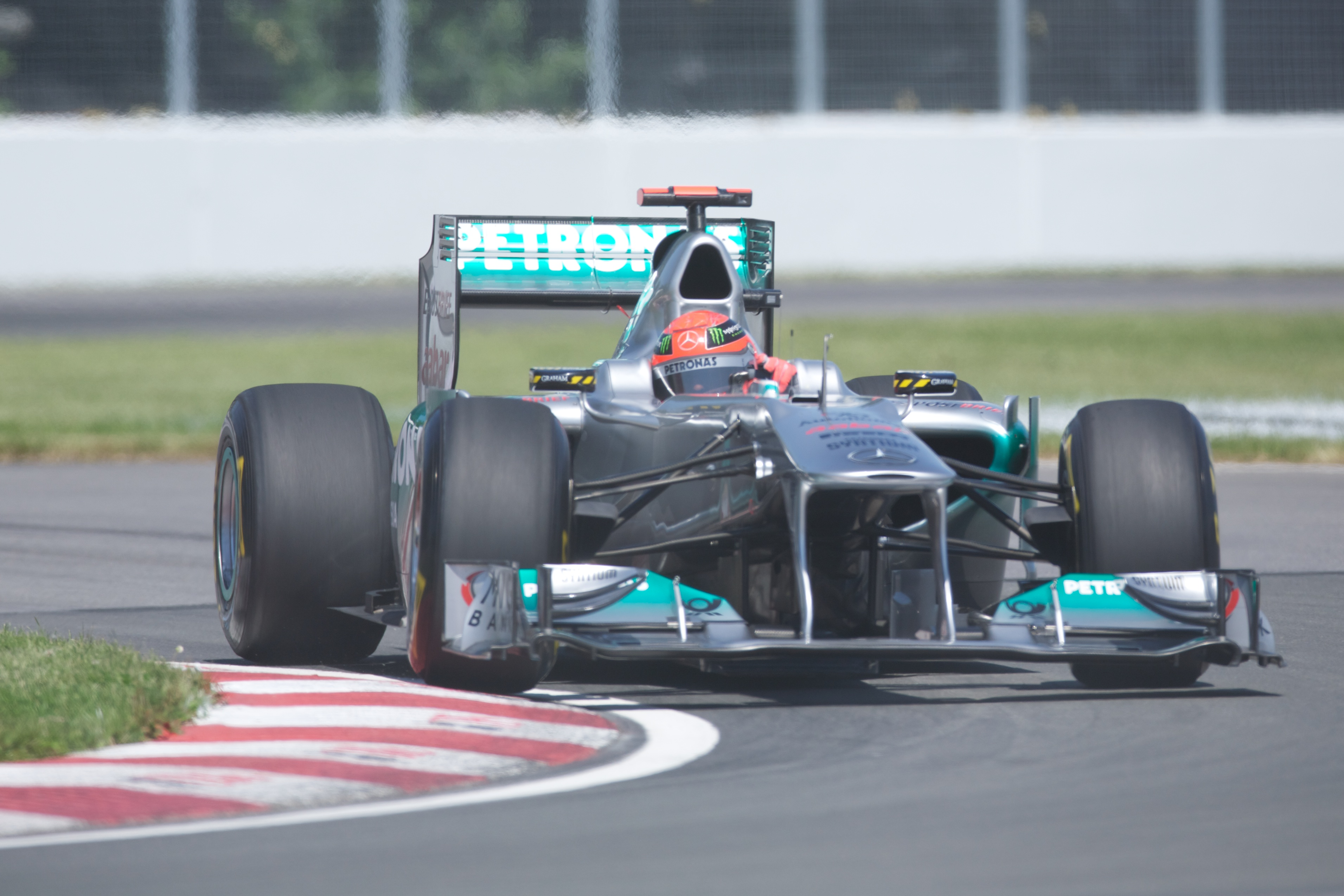 2011 Canadian Grand Prix